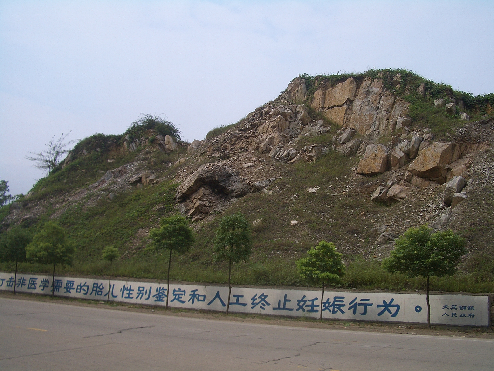 Highway G106/G316 crossing a range of hills between Dajipu Zhen and the Daye Town (Huangshi CIty, Hubei). The roadside inscription says, "严厉打击非医学需要的胎儿性别鉴定和人工终止妊娠行为。" ("Crack down on medically unnecessary fetus sex identification and pregnancy termination practices.")